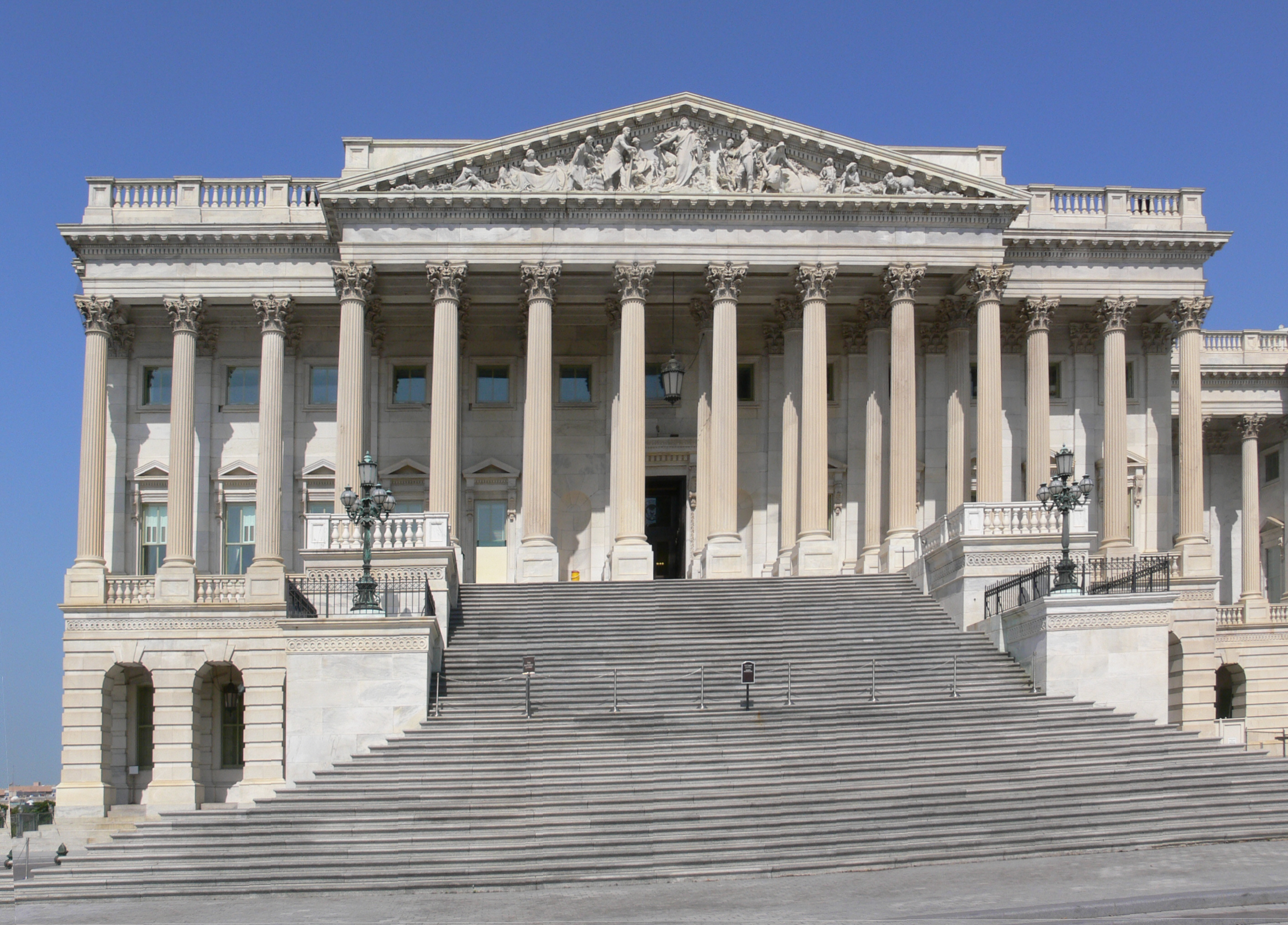 House of Representatives, United States Capitol, Washington D. C.